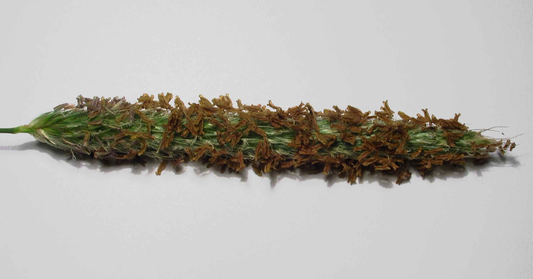 Flowering grass head - Meadow Foxtail. Roger Griffith June 2008